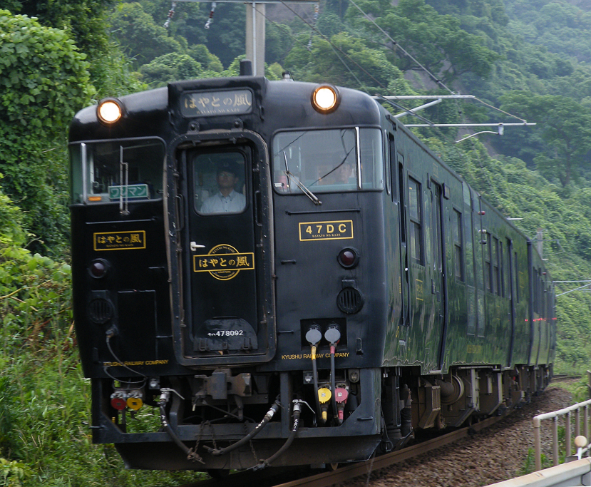 JR Kyushu Limited Express HAYATONO KAZE consists of 3 cars in holiday.